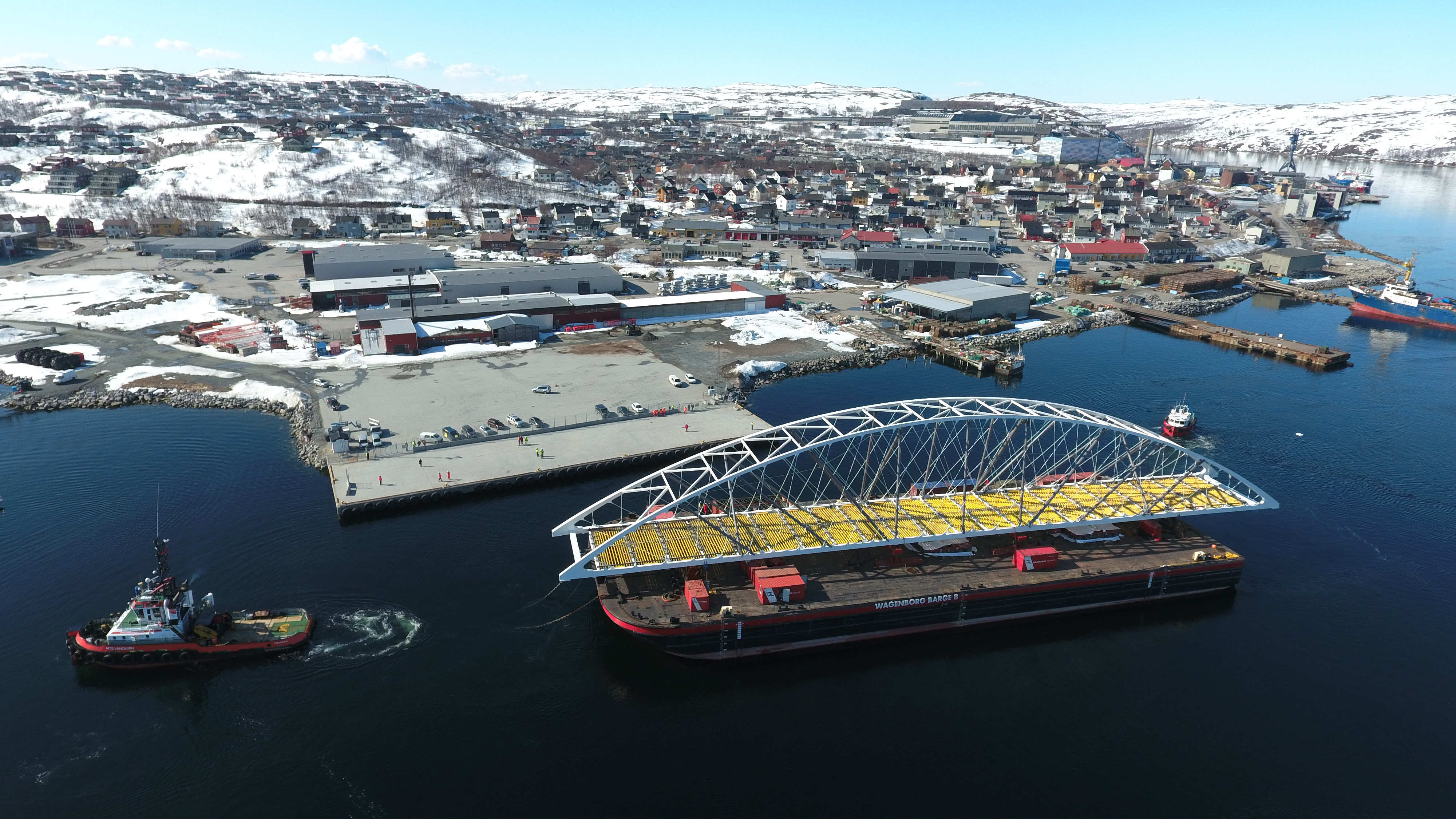 Bøkfjord Bridge, in Kirkenes, being transported to its final site